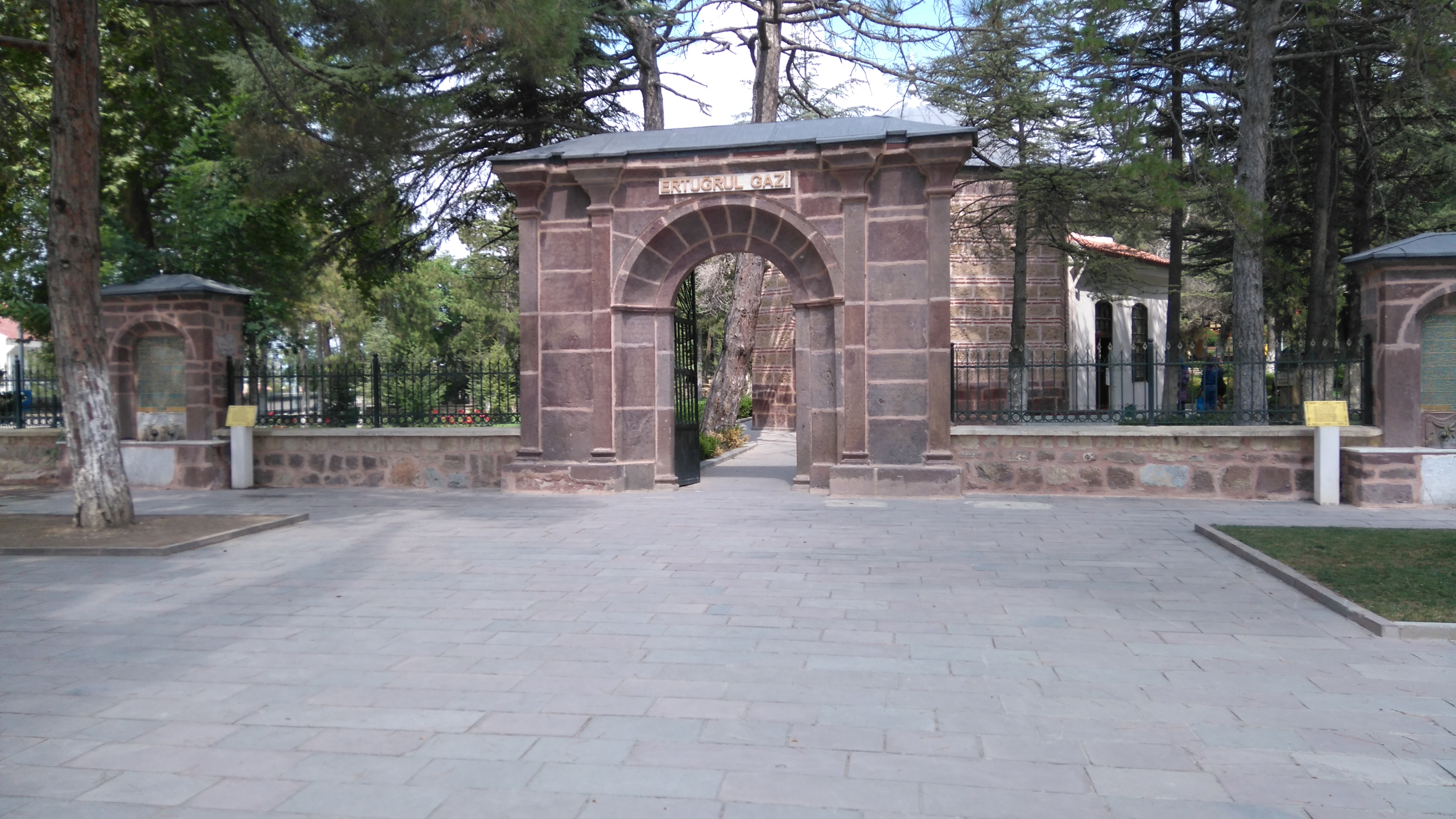 Ertugrul Gazi Türbe Sögüt